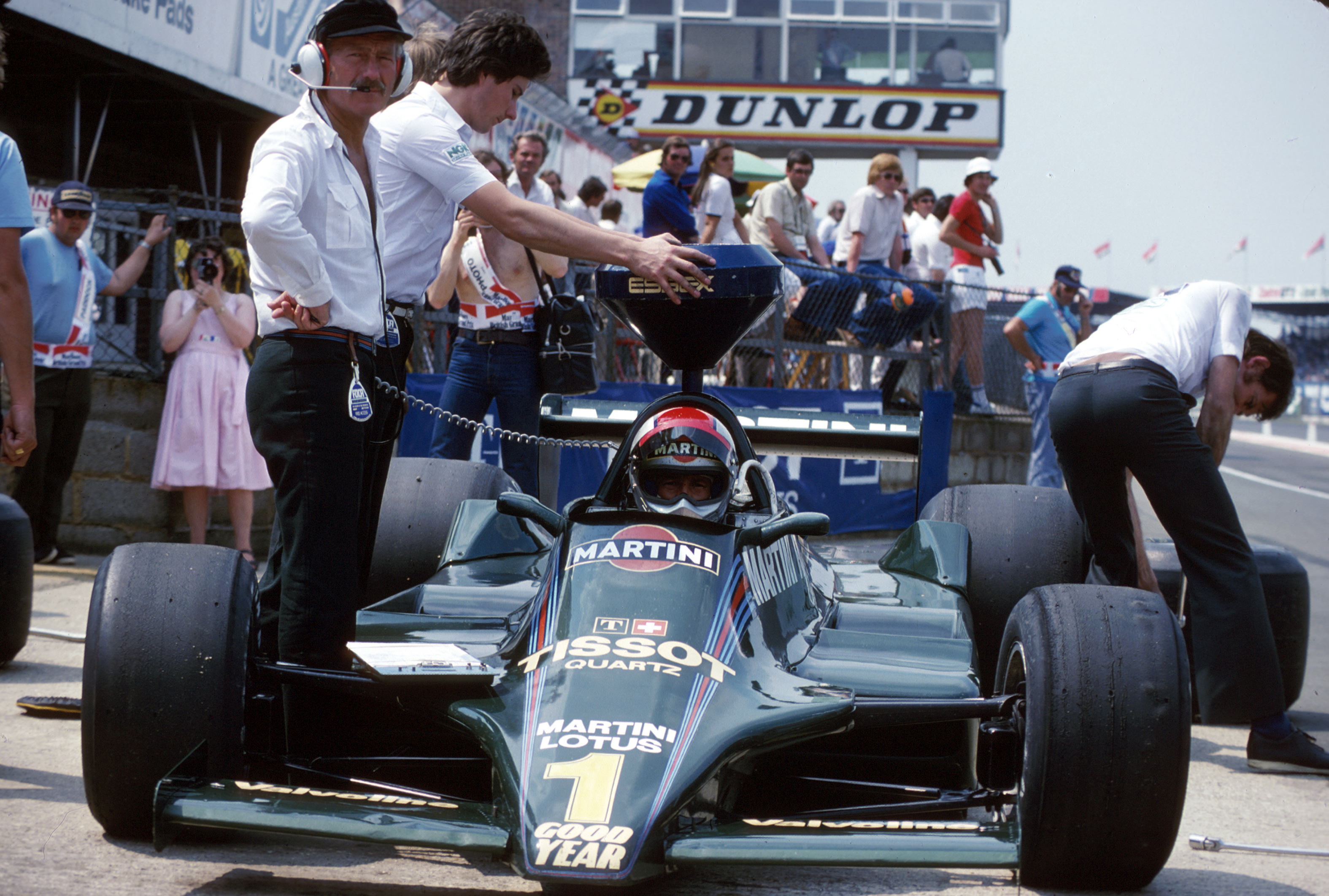 Mario Andretti, sitting in his Martini Lotus Ford, preparing for the 1979 British Grand Prix.